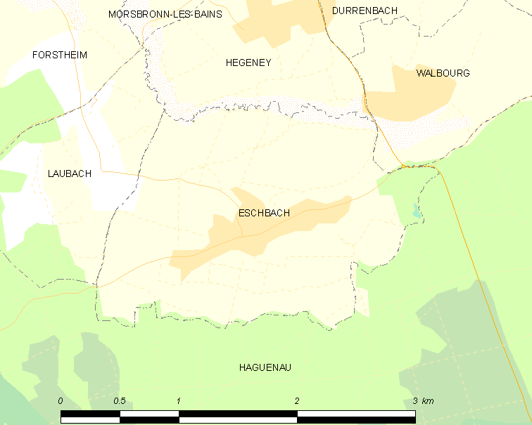 Map of French municipality